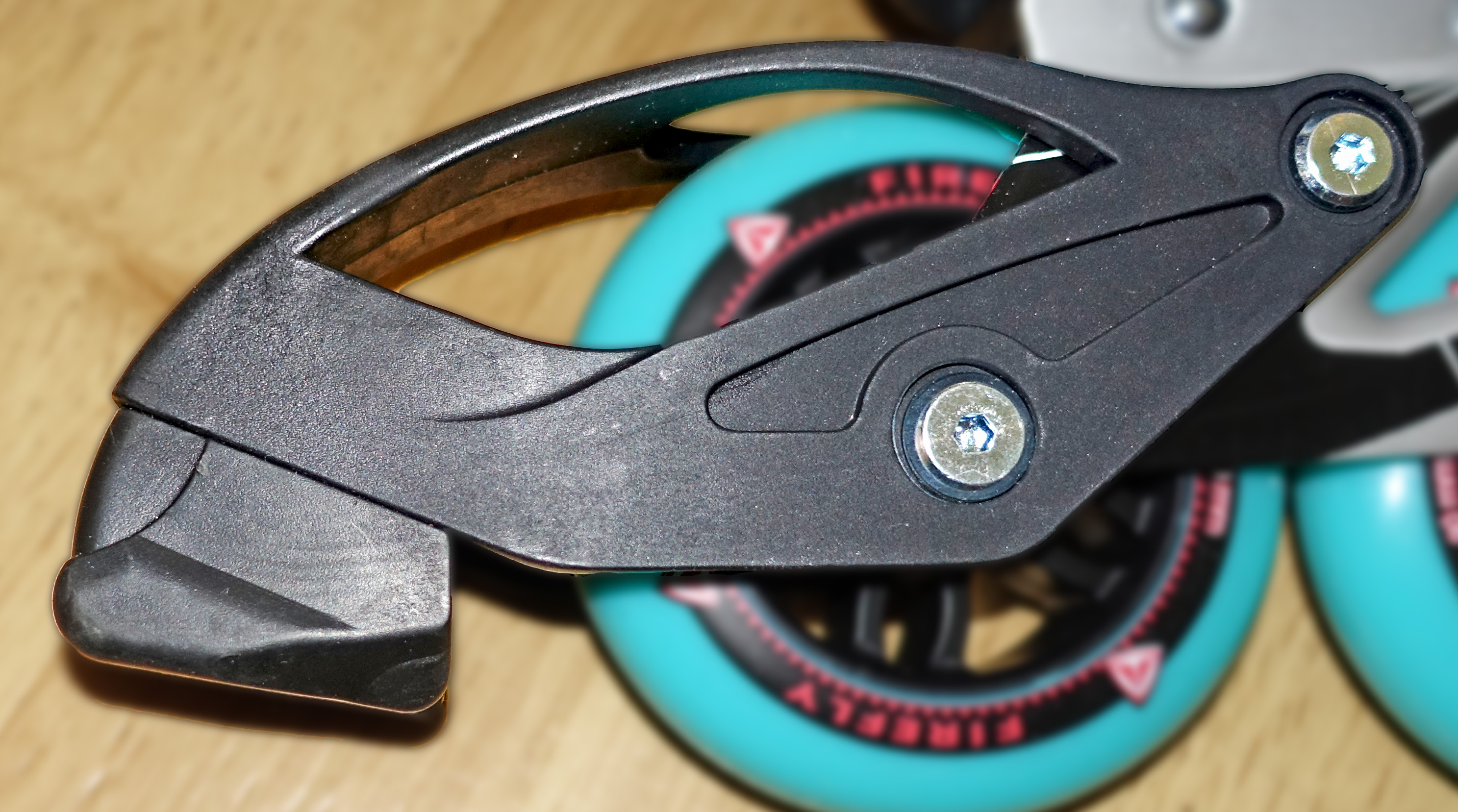 Heel brake of a Firefly roller skate.